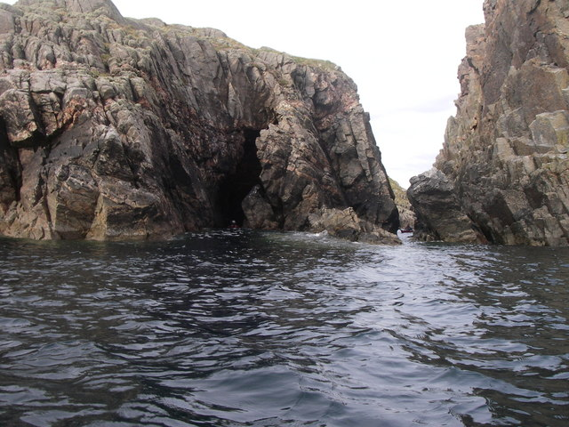 Northern tip of Vacasay in Loch Roag.